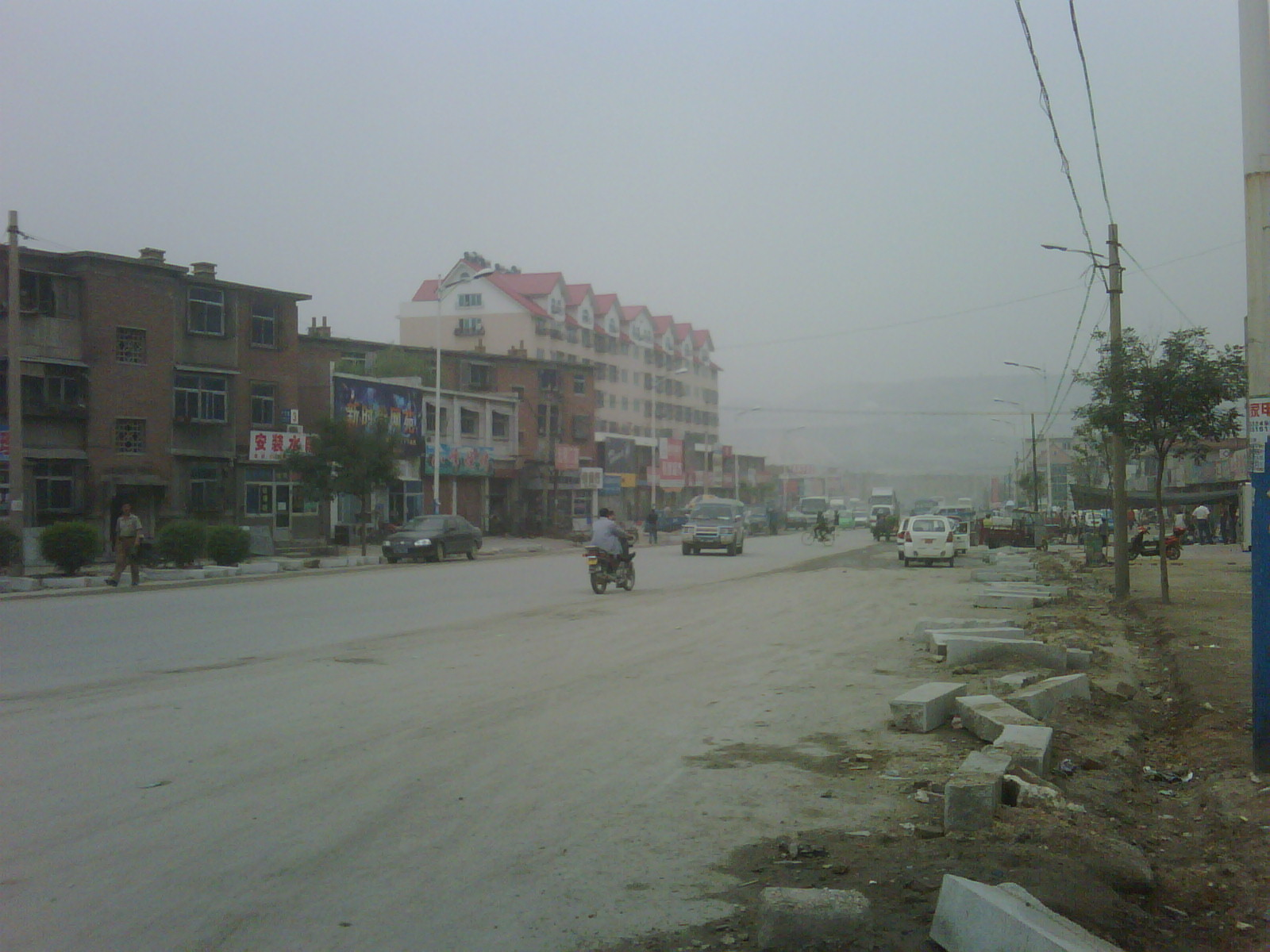 Author: Tom Gao Location: Pailou, Liaoning Province, PRC Date Taken: July 16, 2008 Date Uploaded: December 16, 2008 Summary: Main Street of Pailou looking westward from the Eastern city limit.